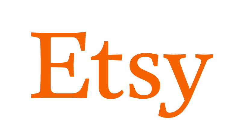 Etsy new logo